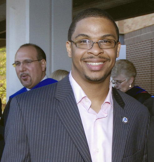 Roland Fryer, University of Texas at Arlington President's Convocation for Academic Excellence.